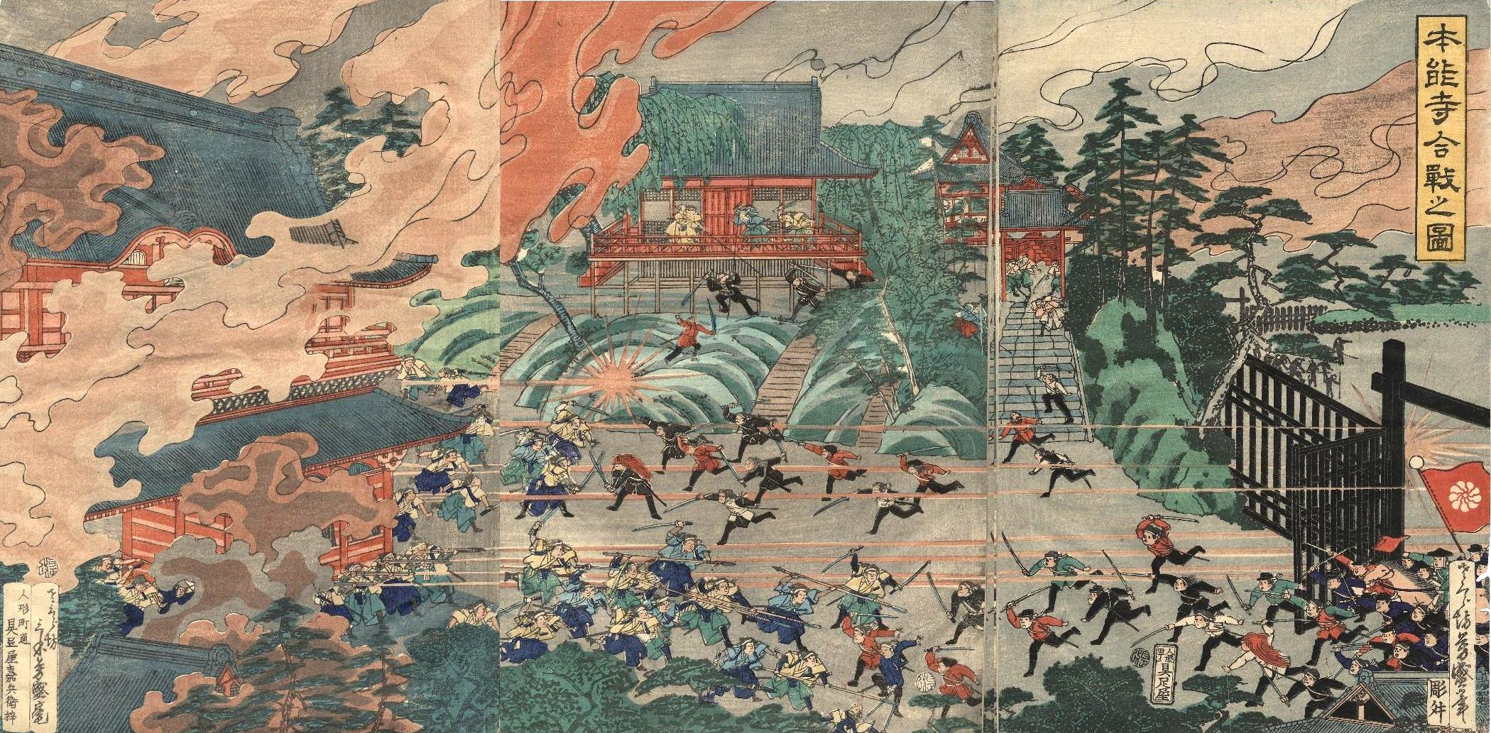 The Battle of Honnōji, in the Battle of Ueno